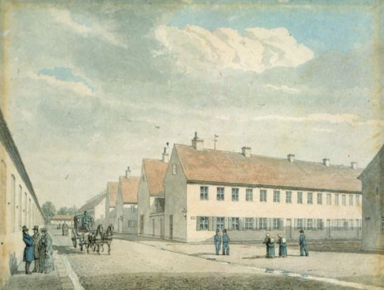 The corner of Store Kongensgade with Elsdayrgade in Copenhagen, Denmark